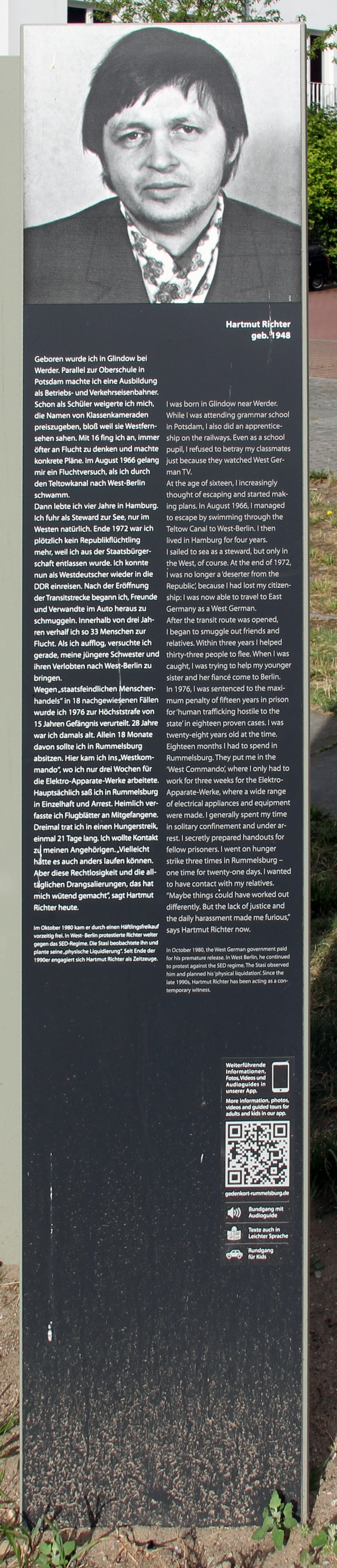 Memorial plaque, Hartmut Richter, Hauptstraße 8, Berlin-Rummelsburg, Deutschland